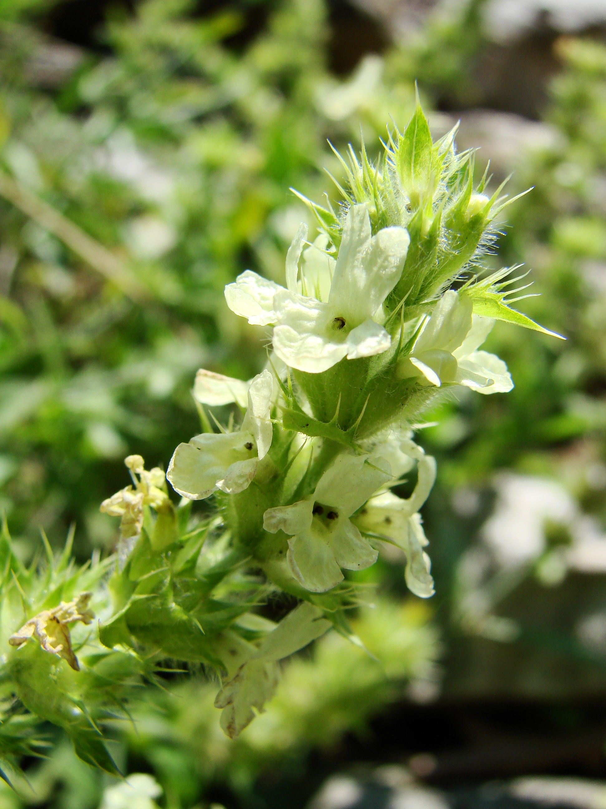 Picture taken in the university botanical garden of Wrocław (Poland): Sideritis hyssopifolia L.